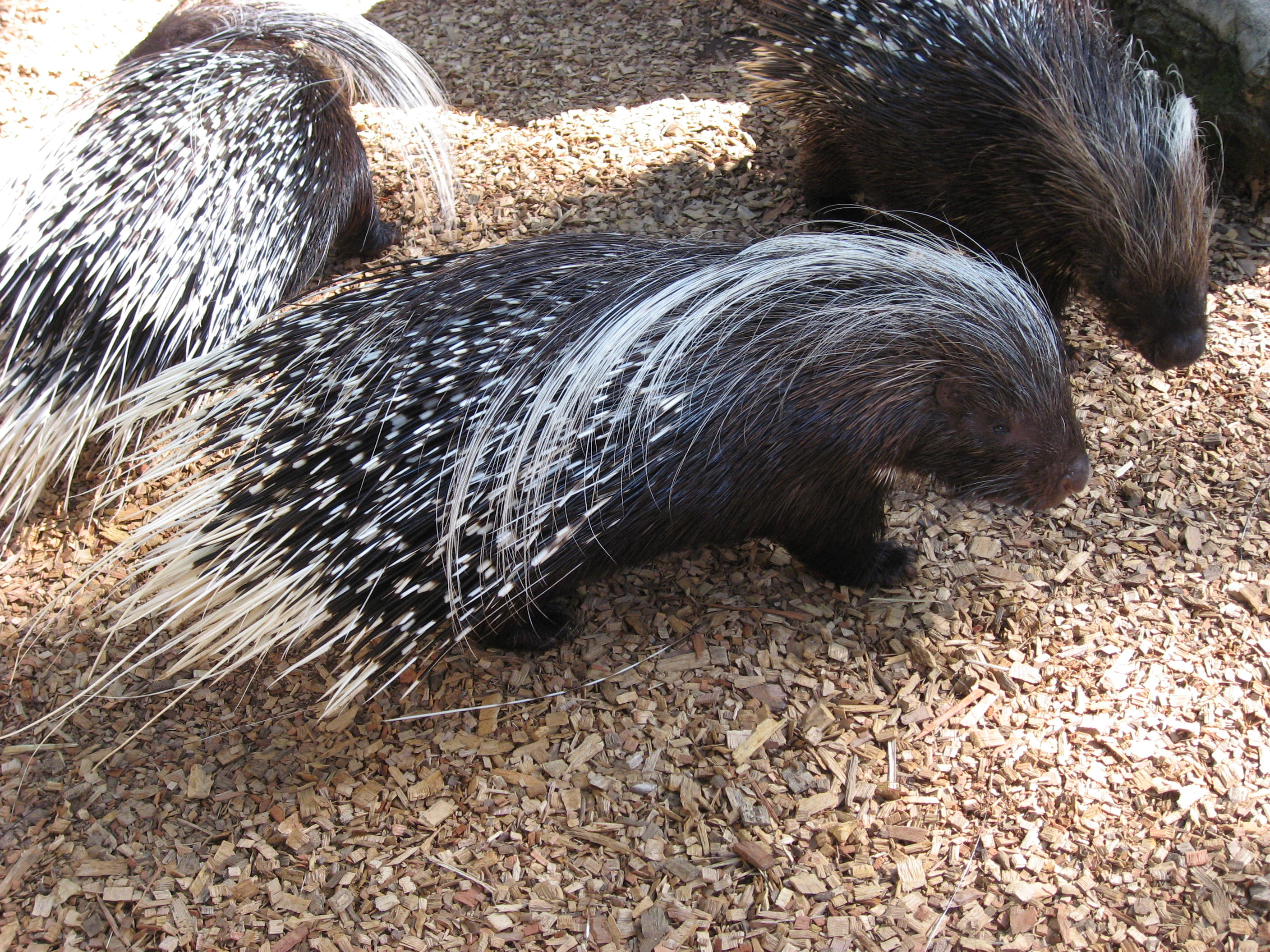 Hystrix cristata in Zoodyssée